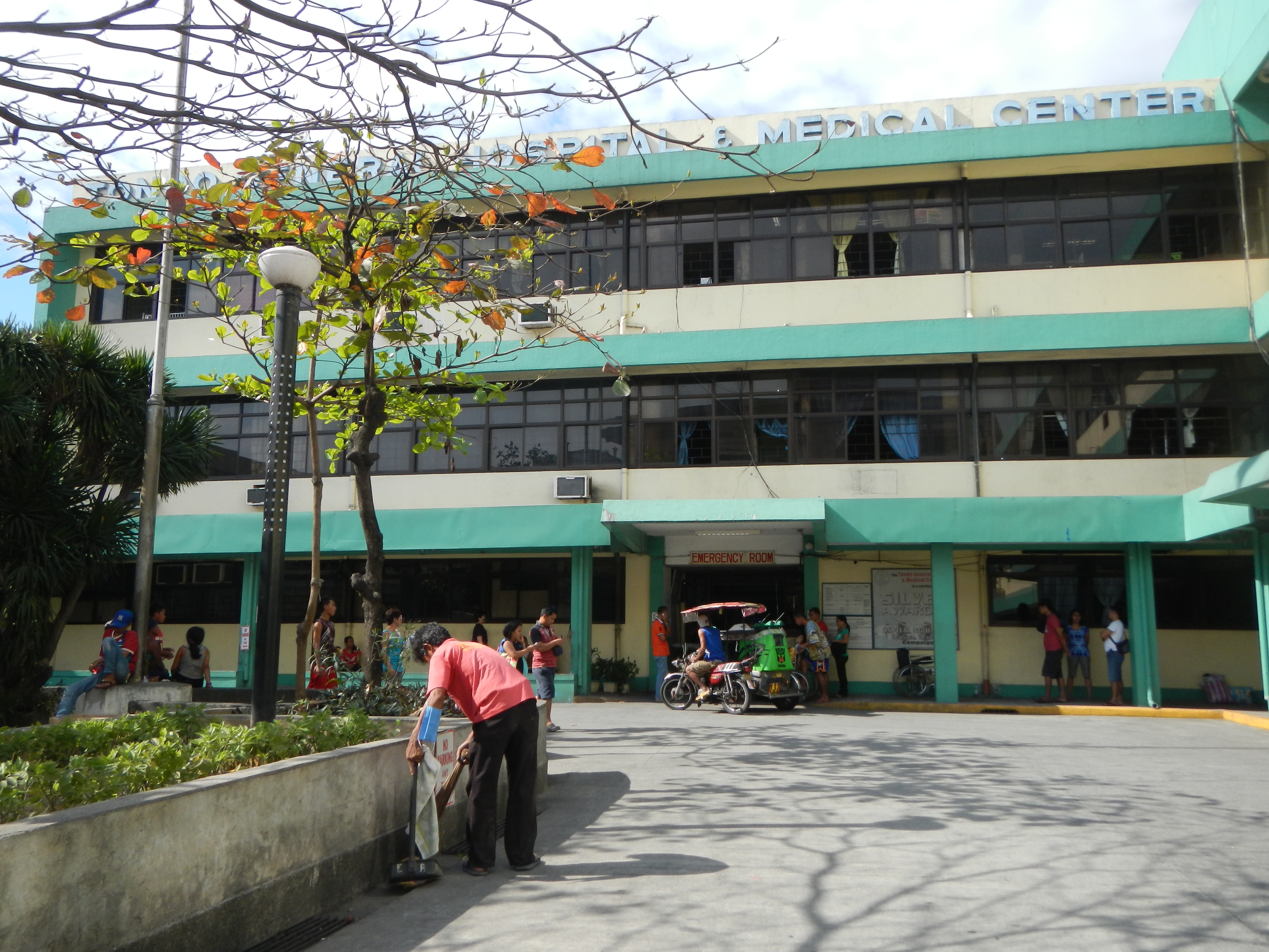 Tondo General Hospital & Medical Center NTP-DOTS Clinic Honorio Lopez Boulevard, Barangays 127, Zone 10, Balut, Tondo, Manila